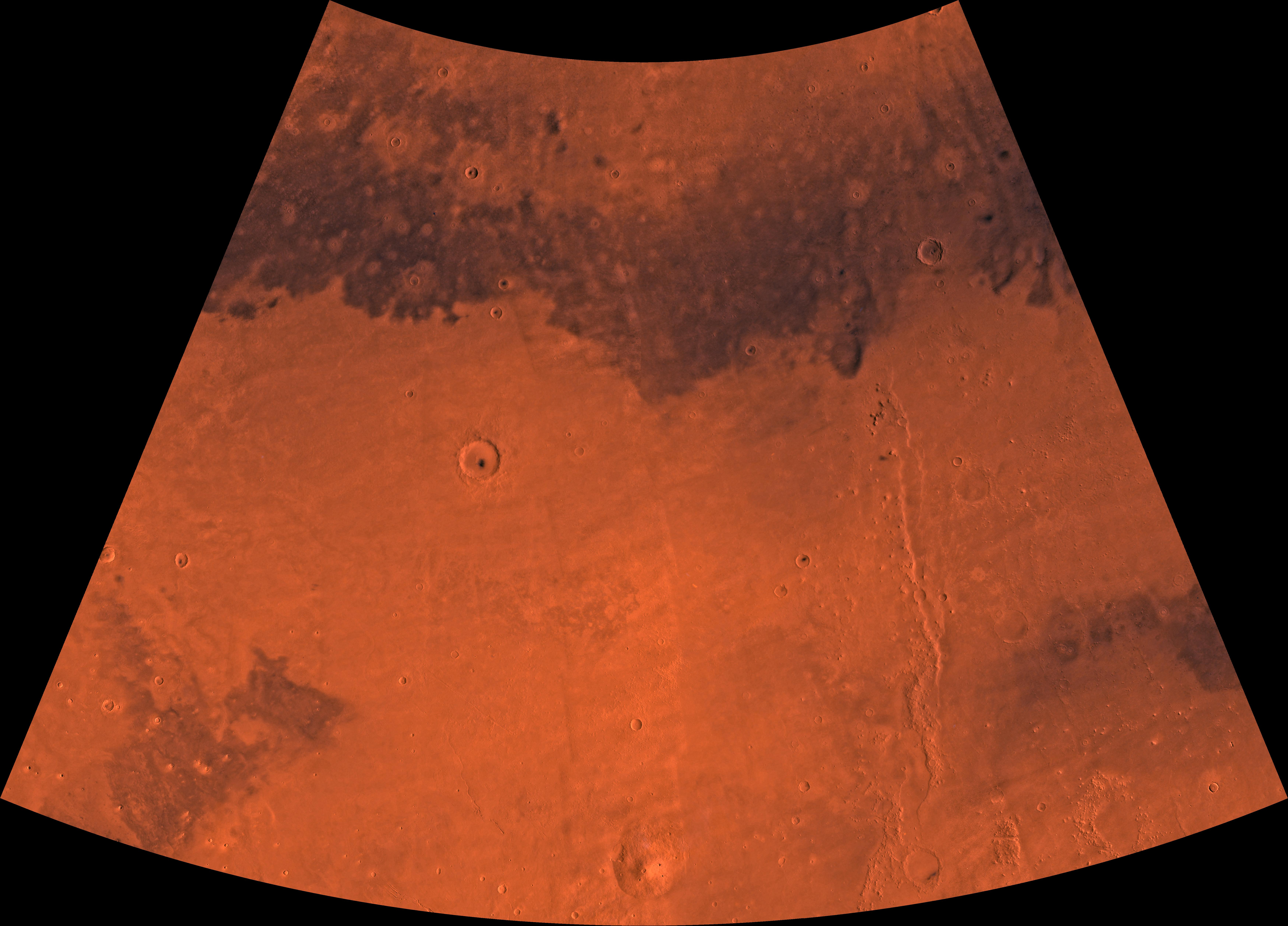 PIA00167: MC-7 Casius Region Mars digital-image mosaic merged with color of the MC-7 quadrangle, Cebrenia region of Mars. The northwestern two-thirds is dominated by light-colored and dark, relatively smooth plains. The southeastern part is marked by one of three prominent Elysium shield volcanoes, Hecates Tholus, and the ridge system of Phlegra Montes. Latitude range 30 to 65 degrees, longitude range -180 to -120 degrees.